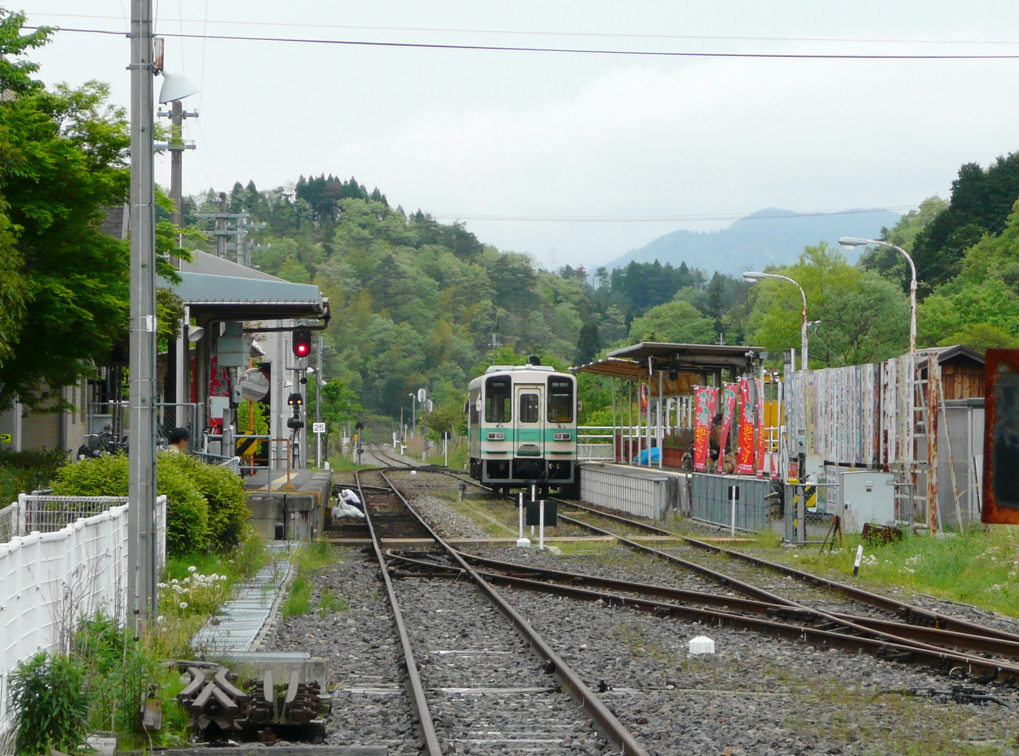 Shigaraki Station on the Shigaraki Kohgen Railway